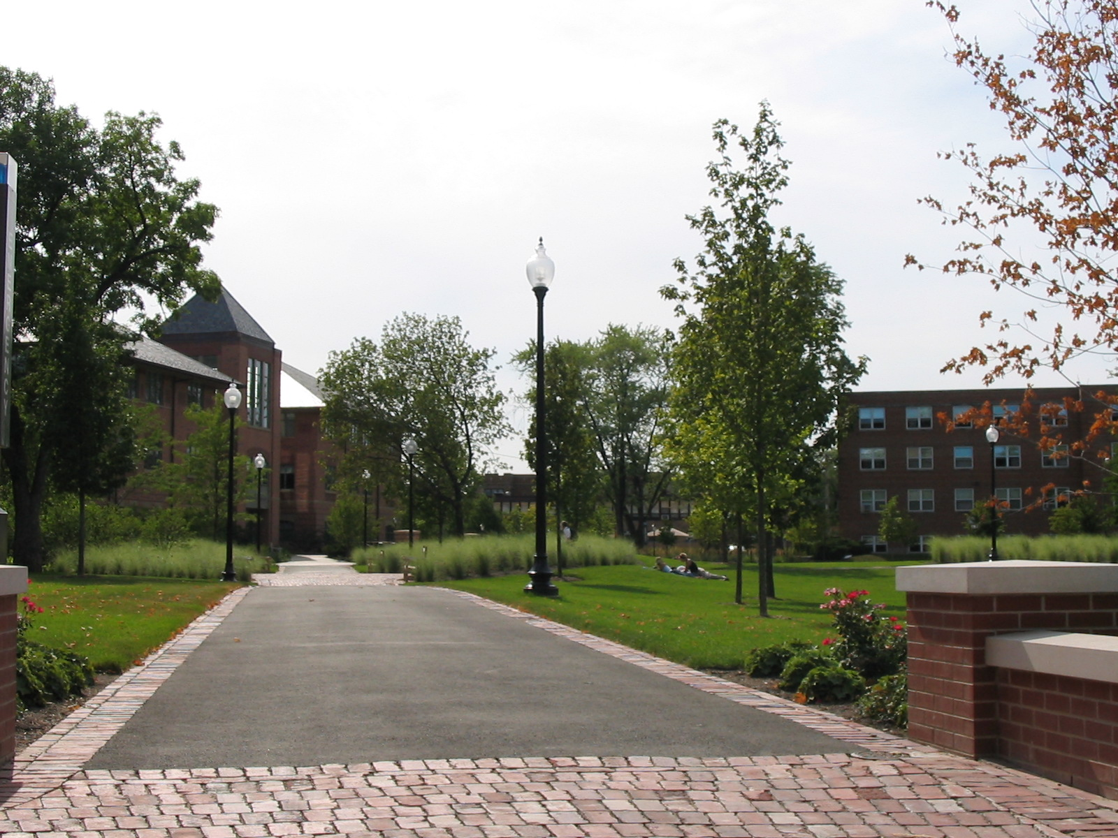 The green space at the center of North Park University campus. The building in the distance is Brandel Library.